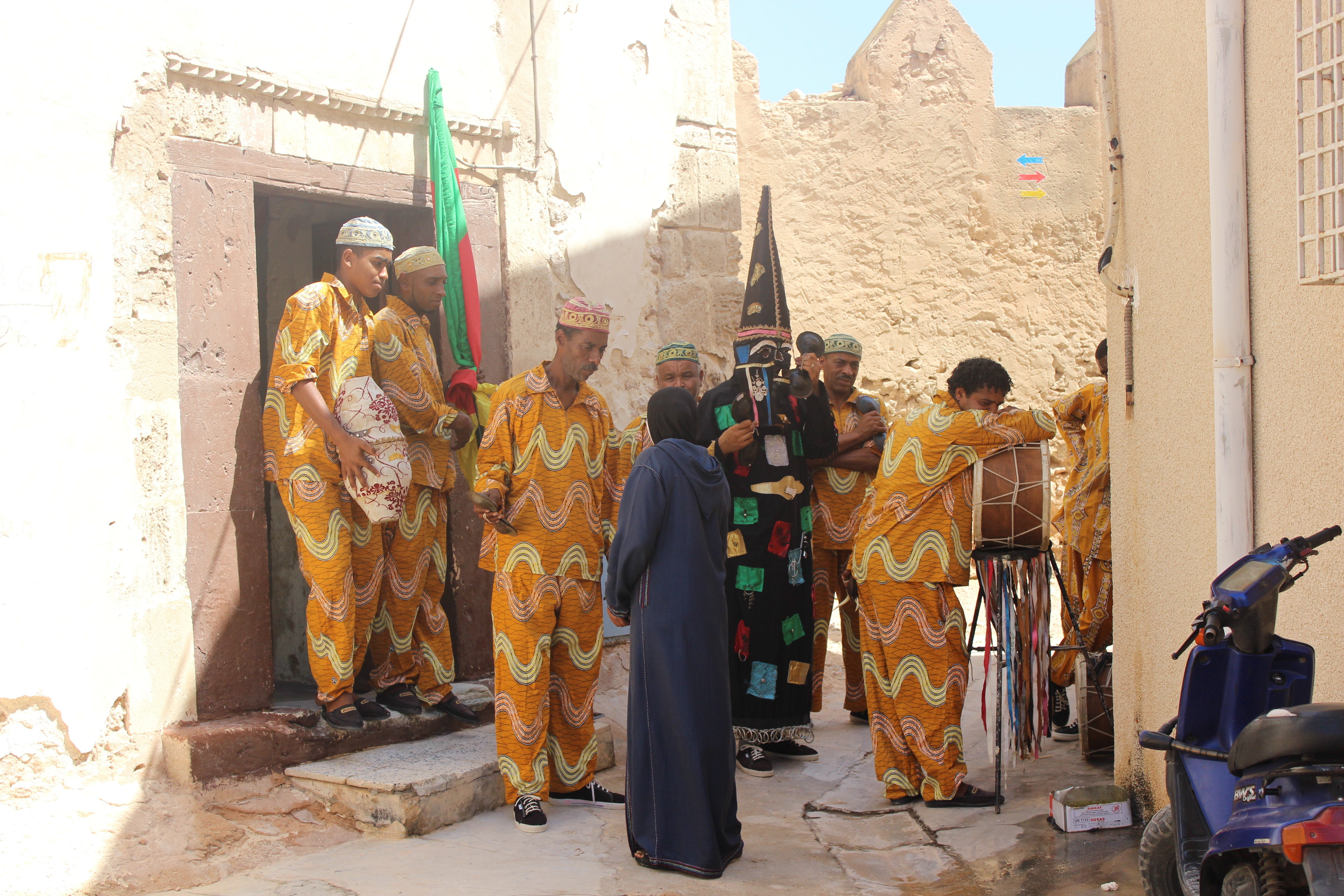 A stambali Show in Borj Lalla Masouda in the medina of Sfax